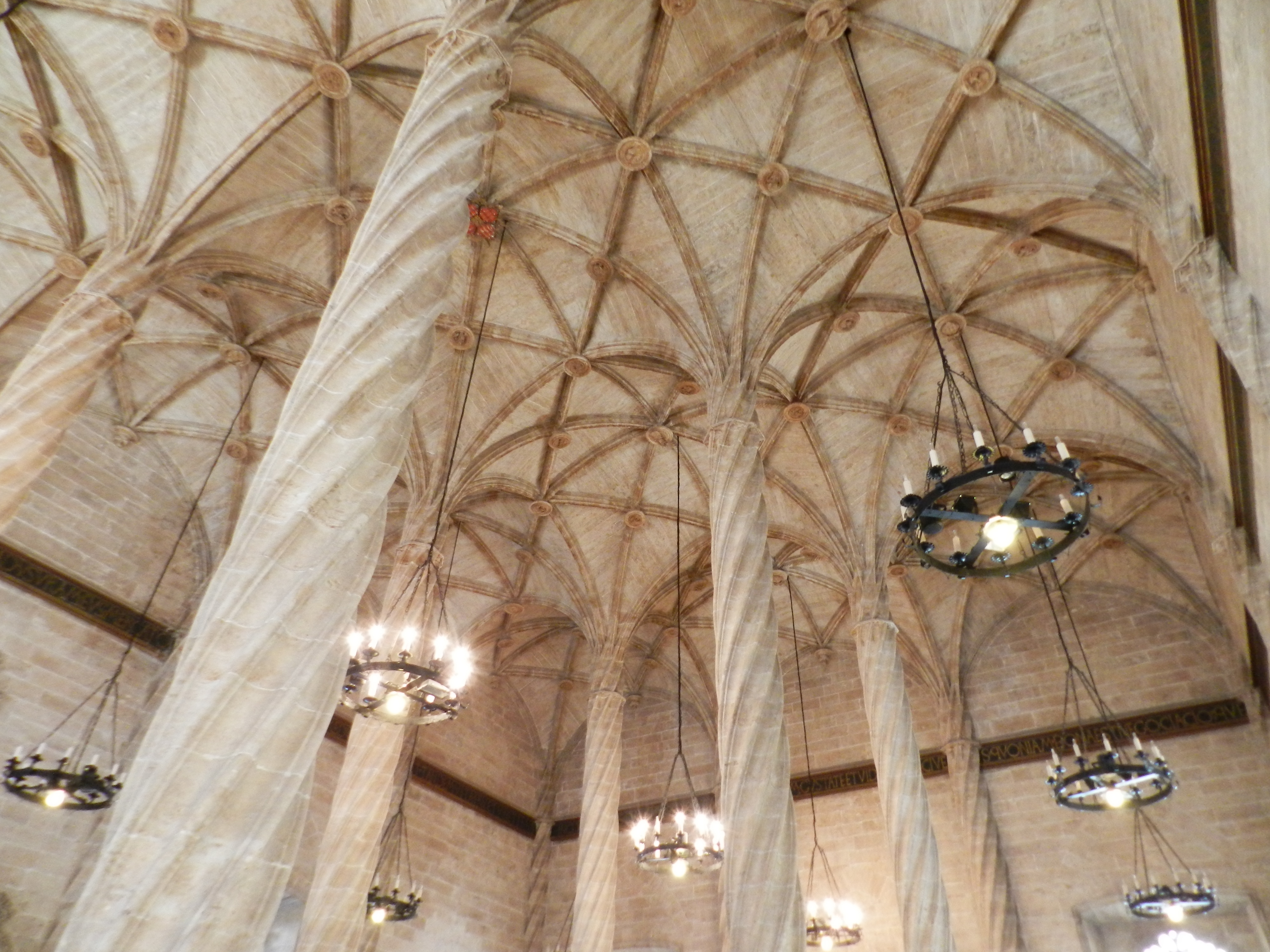 Llotja de la Seda interior -Valencia